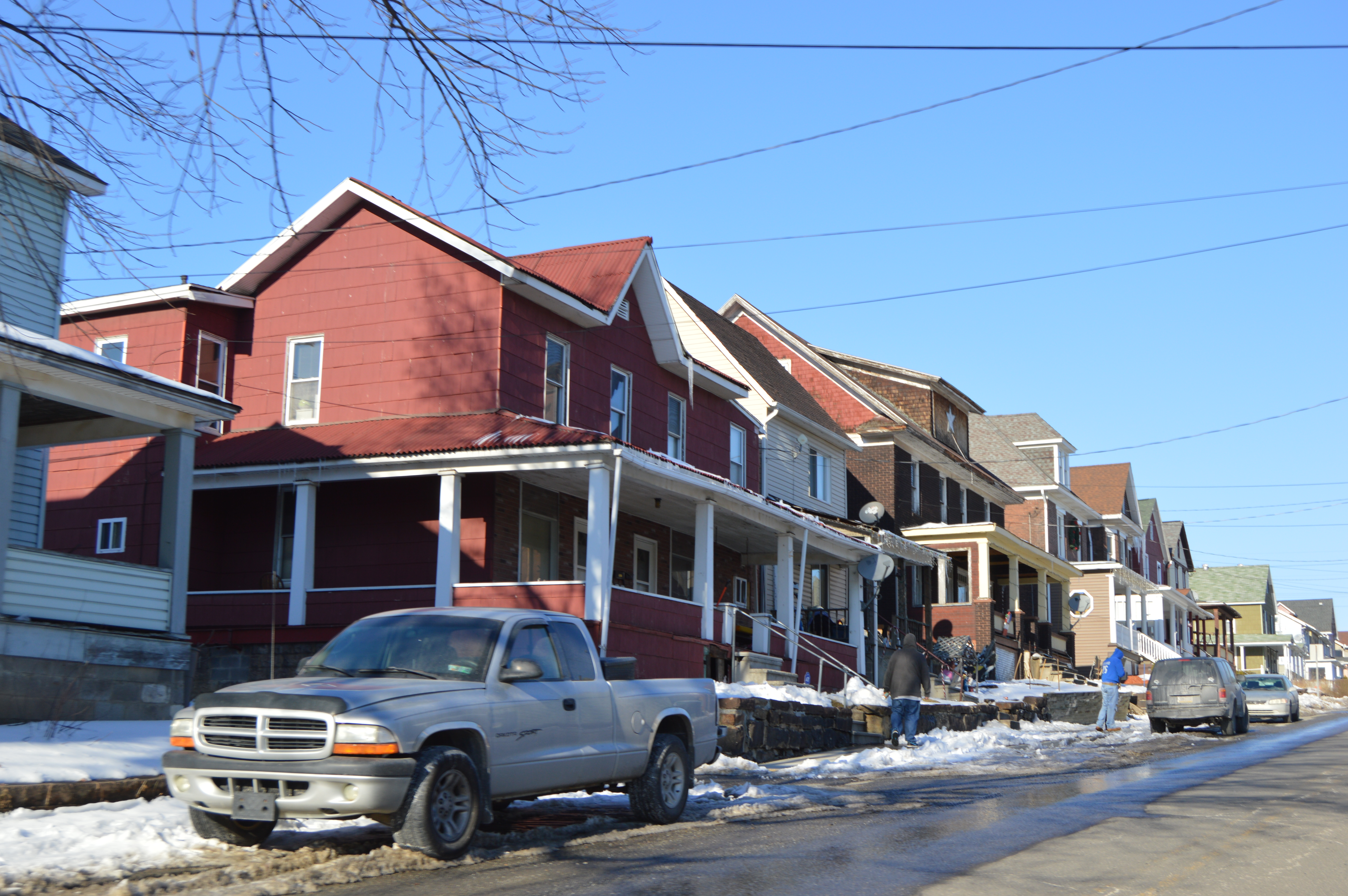 Houses on the northern side of Second Street (Pennsylvania Route 271) east of the Locust Street intersection in East Conemaugh, Pennsylvania, United States.